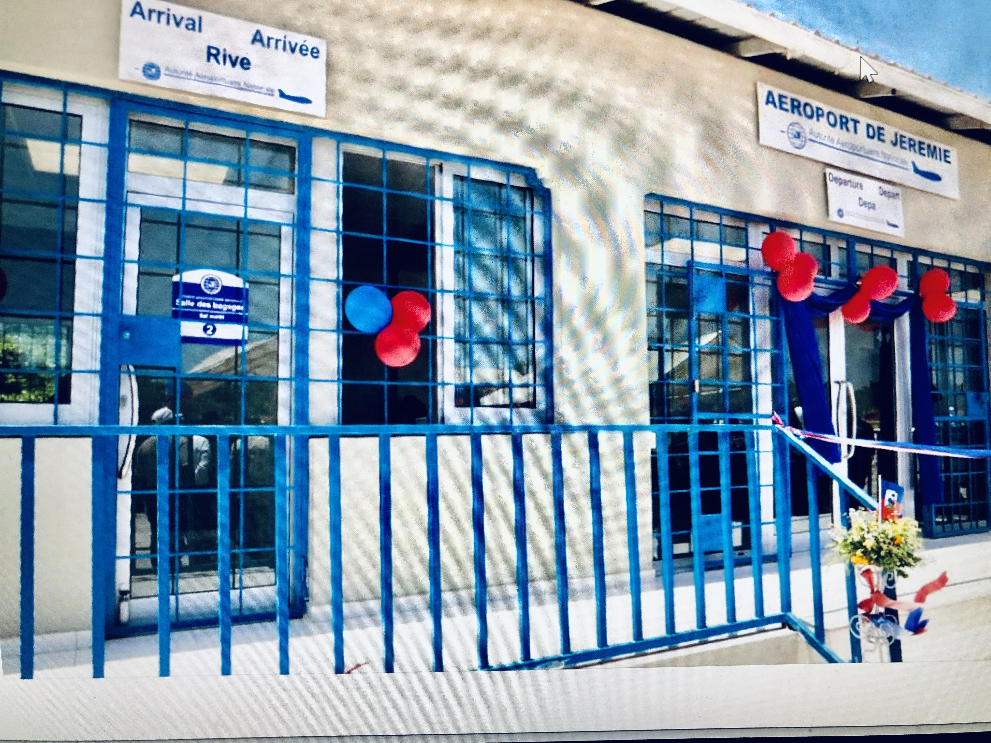 Jeremie,airport in 2020